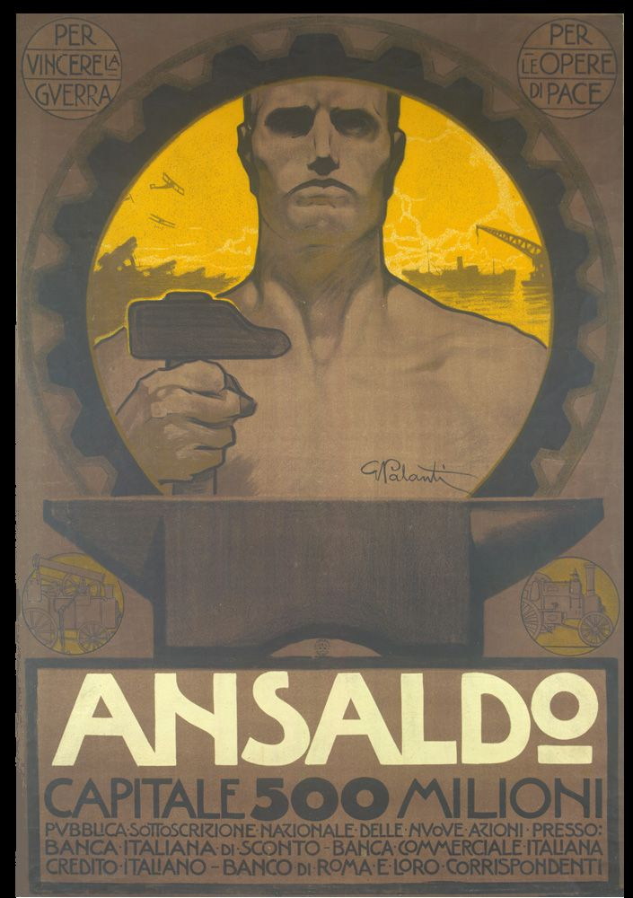 Giuseppe Palanti - Pubblicità Ansaldo 1918